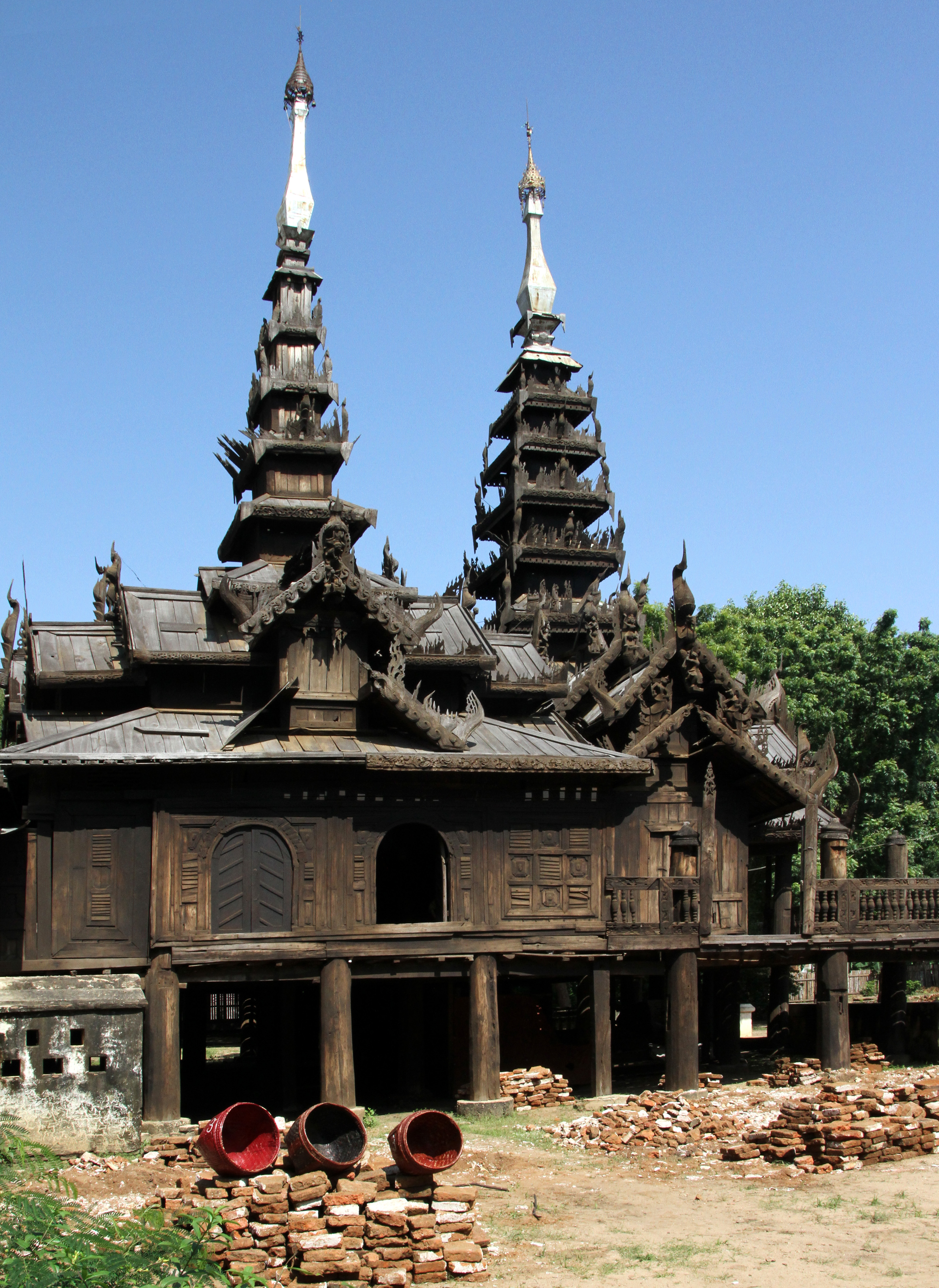 Nat Htaunk Kyaung monastery in Bagan, Myanmar.